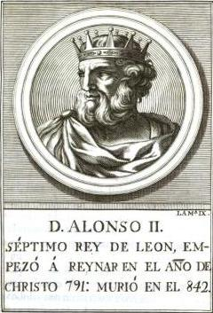 King Alfonso II the Chaste of Asturias